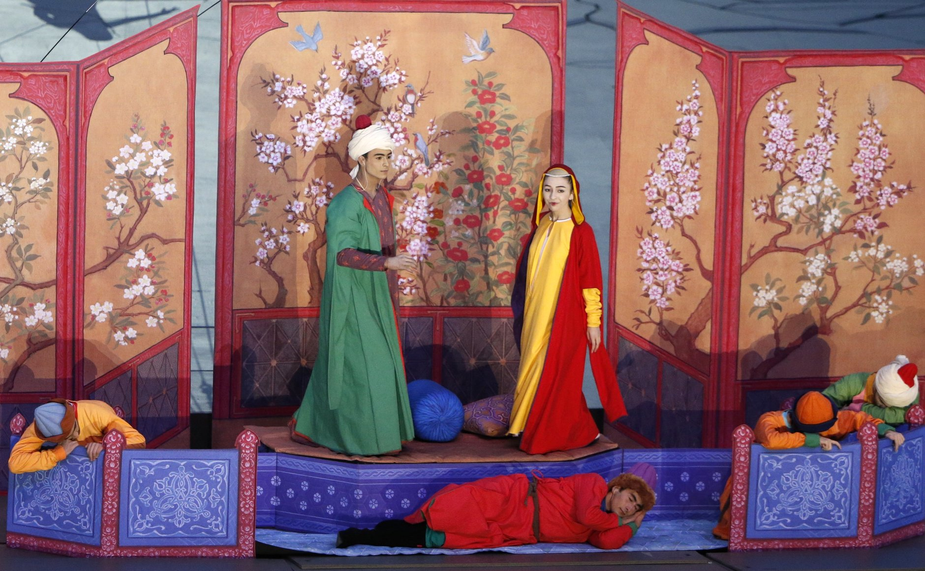 The opening ceremony of the first European games